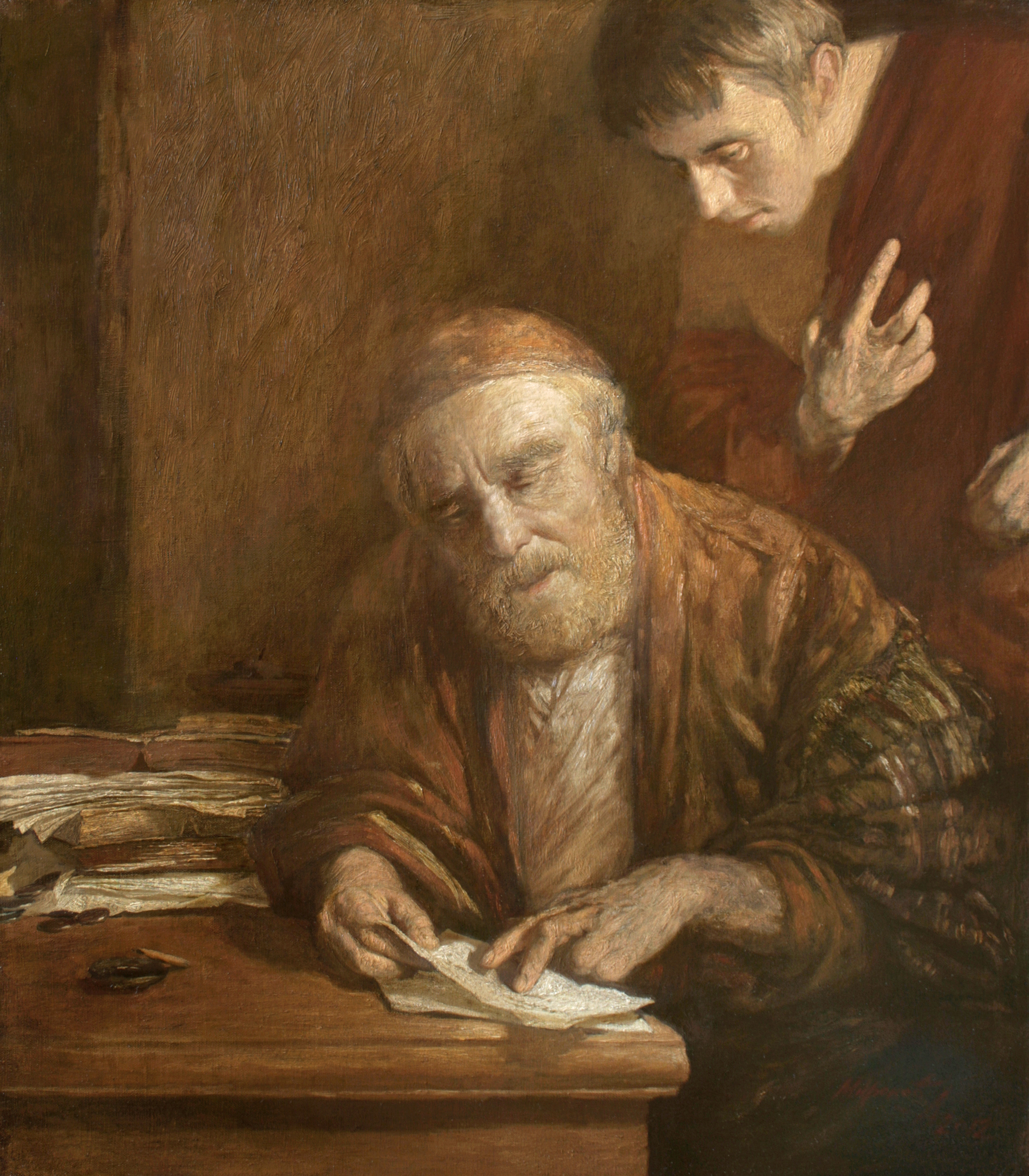 Parable of the Unjust Steward. 2012. Canvas, oil. 80 x 70. Artist A.N. Mironov